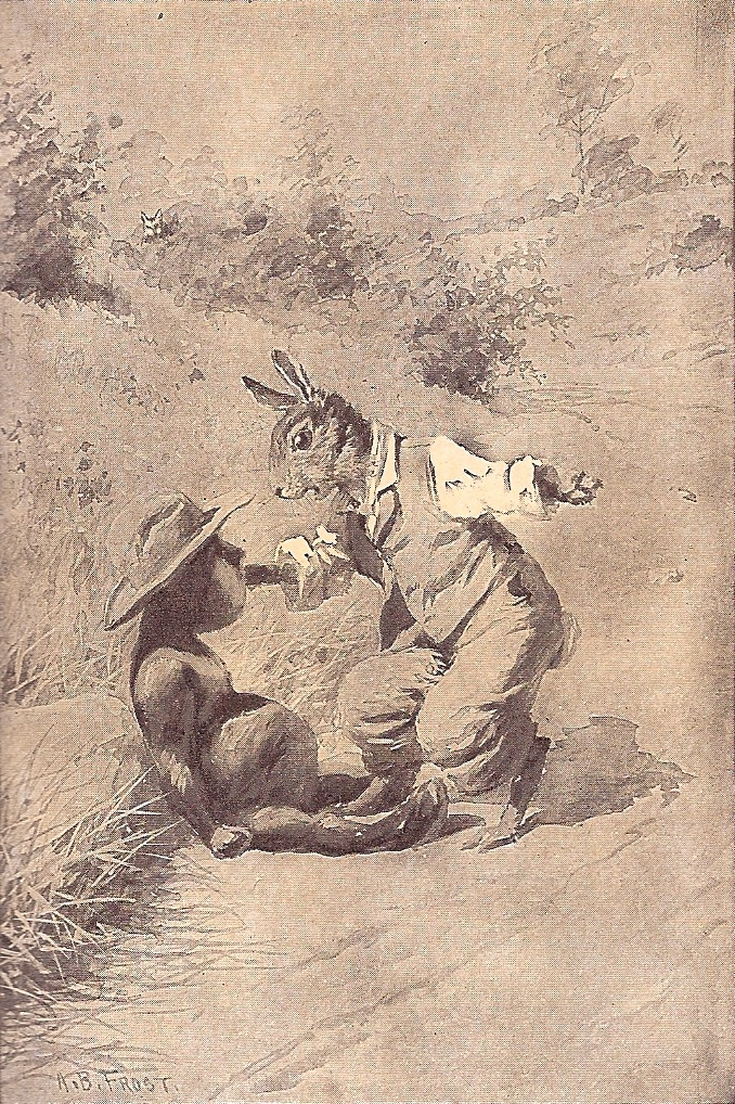 Brer Rabbit gets stuck in the Tar-Baby. This illustration comes from the 1895 version of Joel Chandler Harris' Uncle Remus: His Songs and His Sayings, illustrated by A.B. Frost